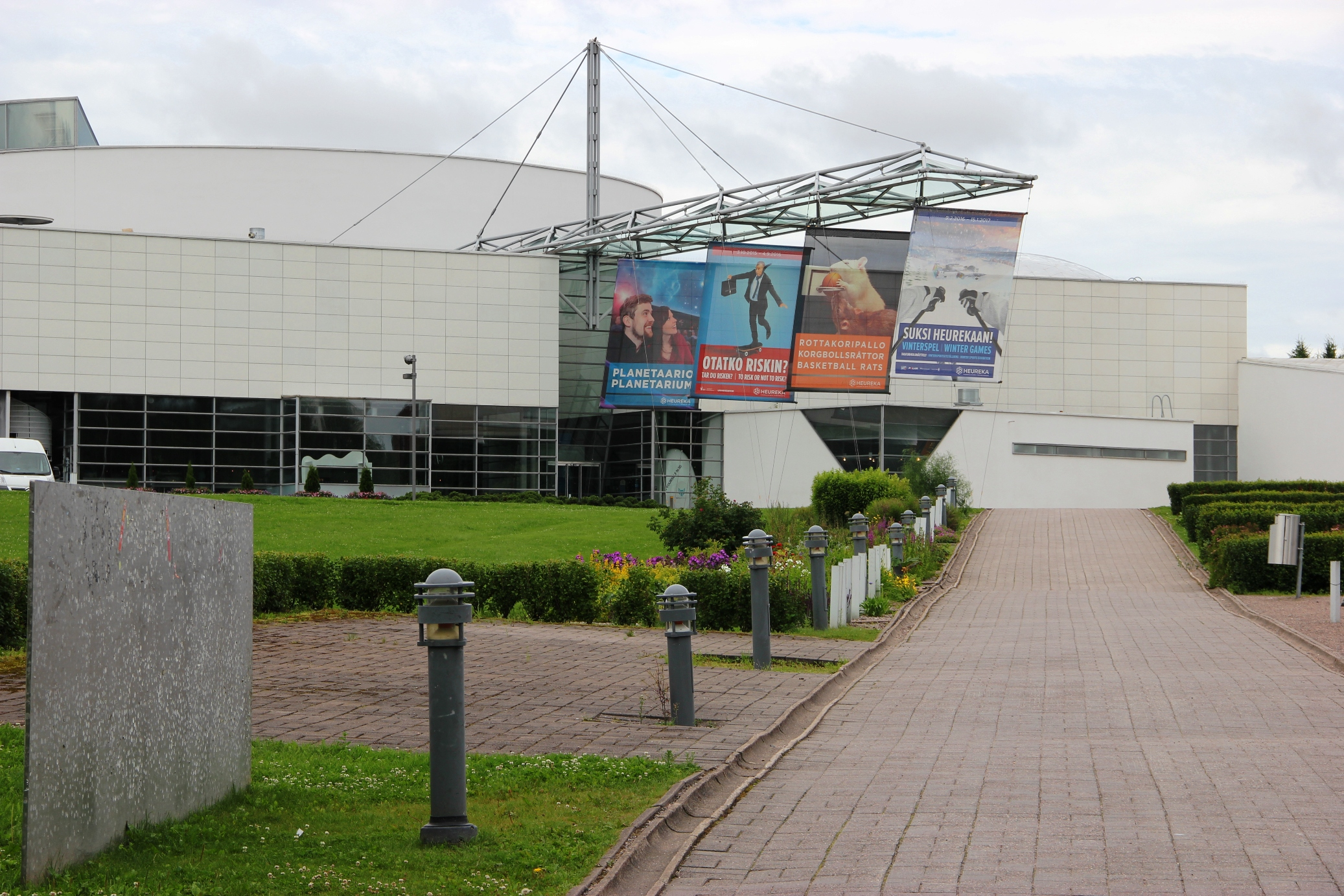 Entrance to Heureka